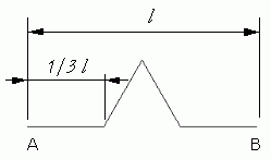 Koch Curve, level 1 by Sblive.